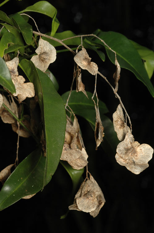 Fruit (winged seeds) of Pentaceras australe in the Mount Annan Botanic Gardens, N.S.W.